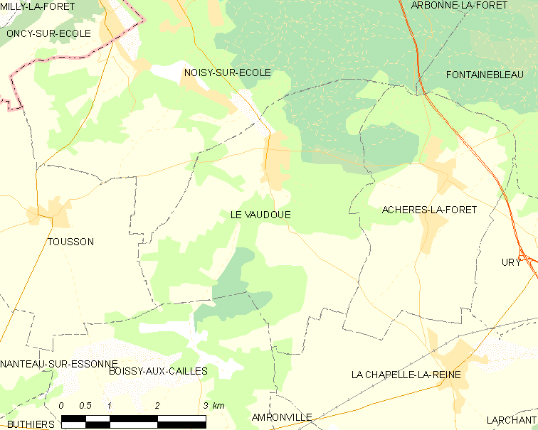 Map of French municipality Le Vaudoué